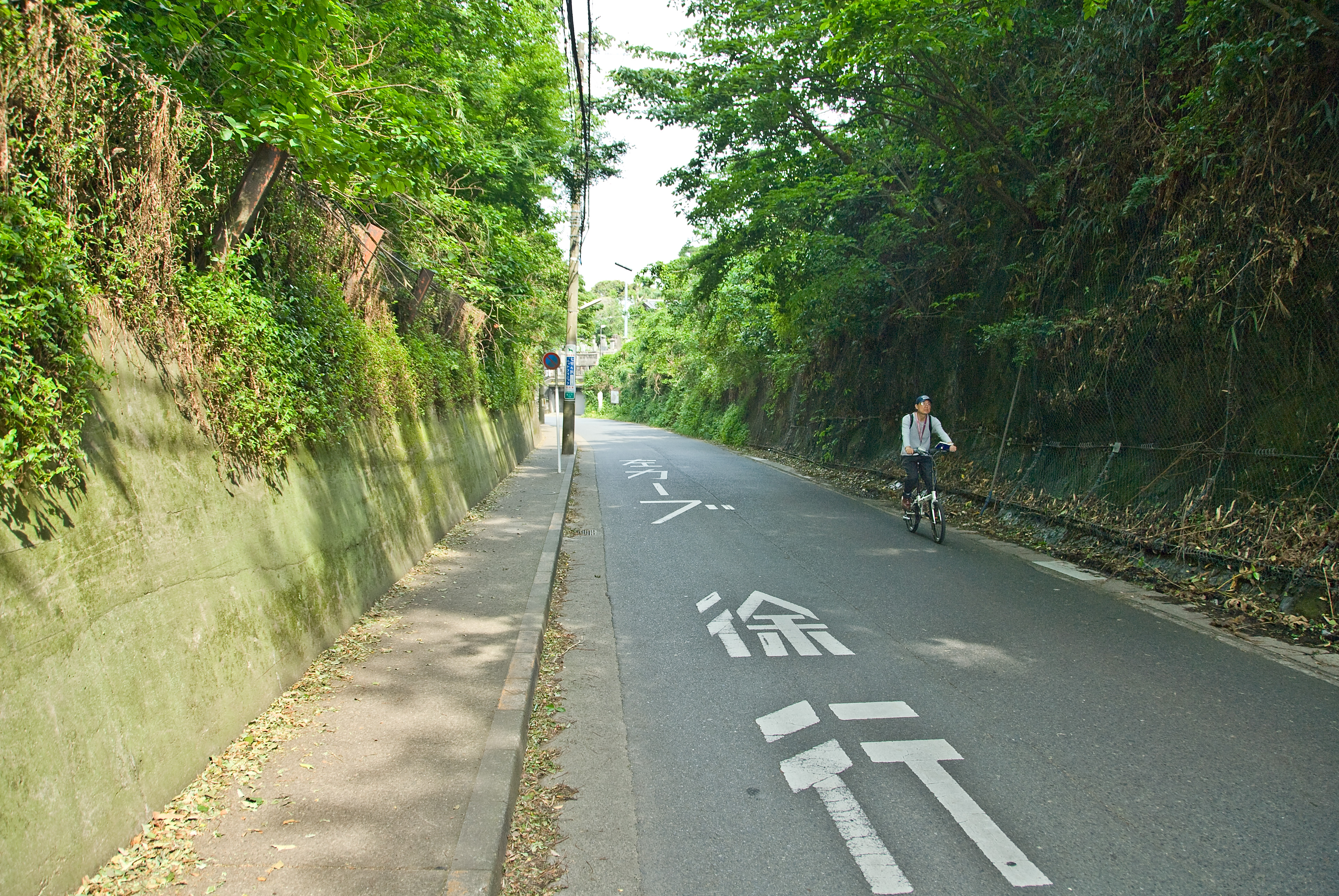 The external side of the Gokurakuji-zaka Pass near Hase. The pass is much longer, here you see only its narrowest point.